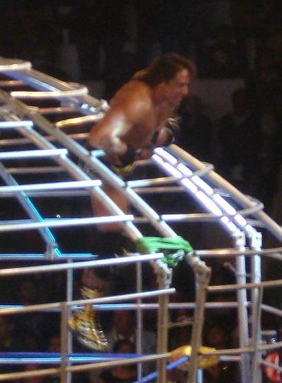 wrestler El Mesias escaping the cage at Guerra de Titanes 2009